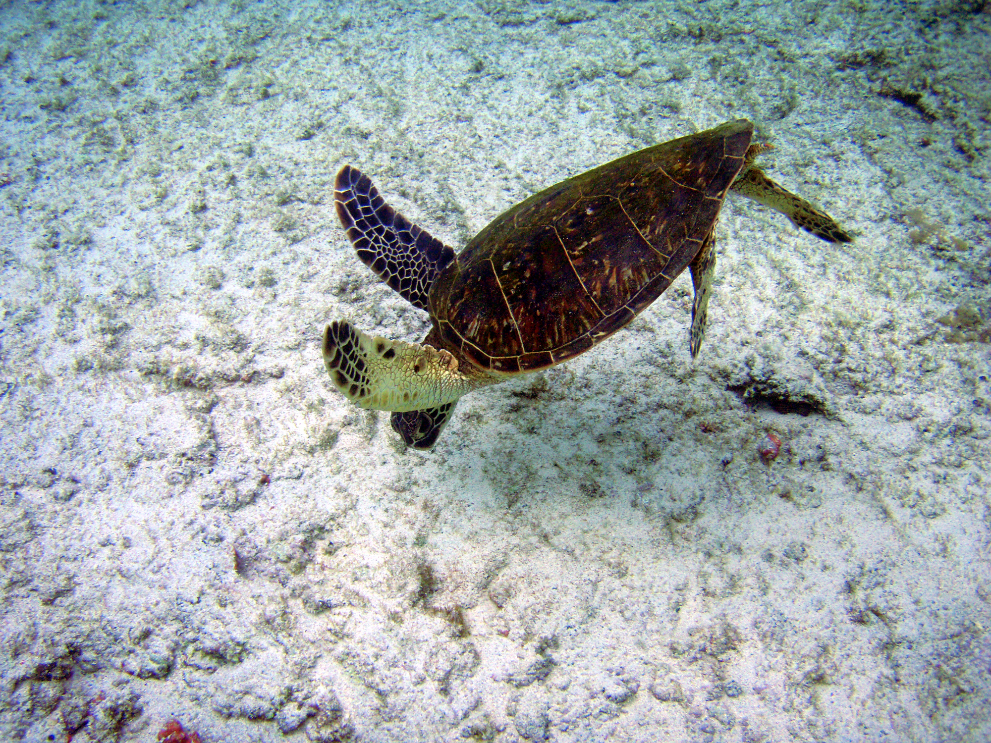 Feeding Green turtle, Chelonia mydas